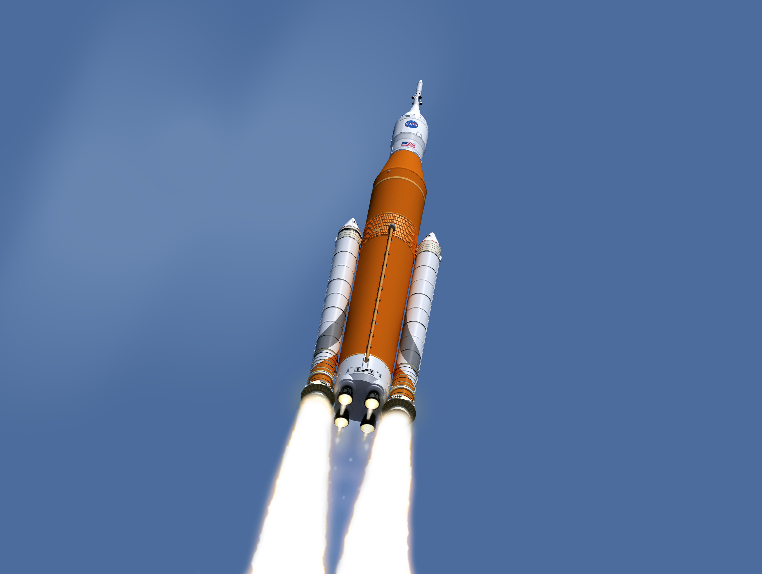 Artist concept of the Block 1 SLS configuration in flight. The SLS is an advanced, heavy-lift rocket that will provide an entirely new capability for science and human exploration beyond Earth’s orbit. The first SLS mission -- Exploration Mission 1 -- in 2018 will launch an uncrewed Orion spacecraft to demonstrate the inte­grated system performance of the SLS rocket and spacecraft prior to a crewed flight.